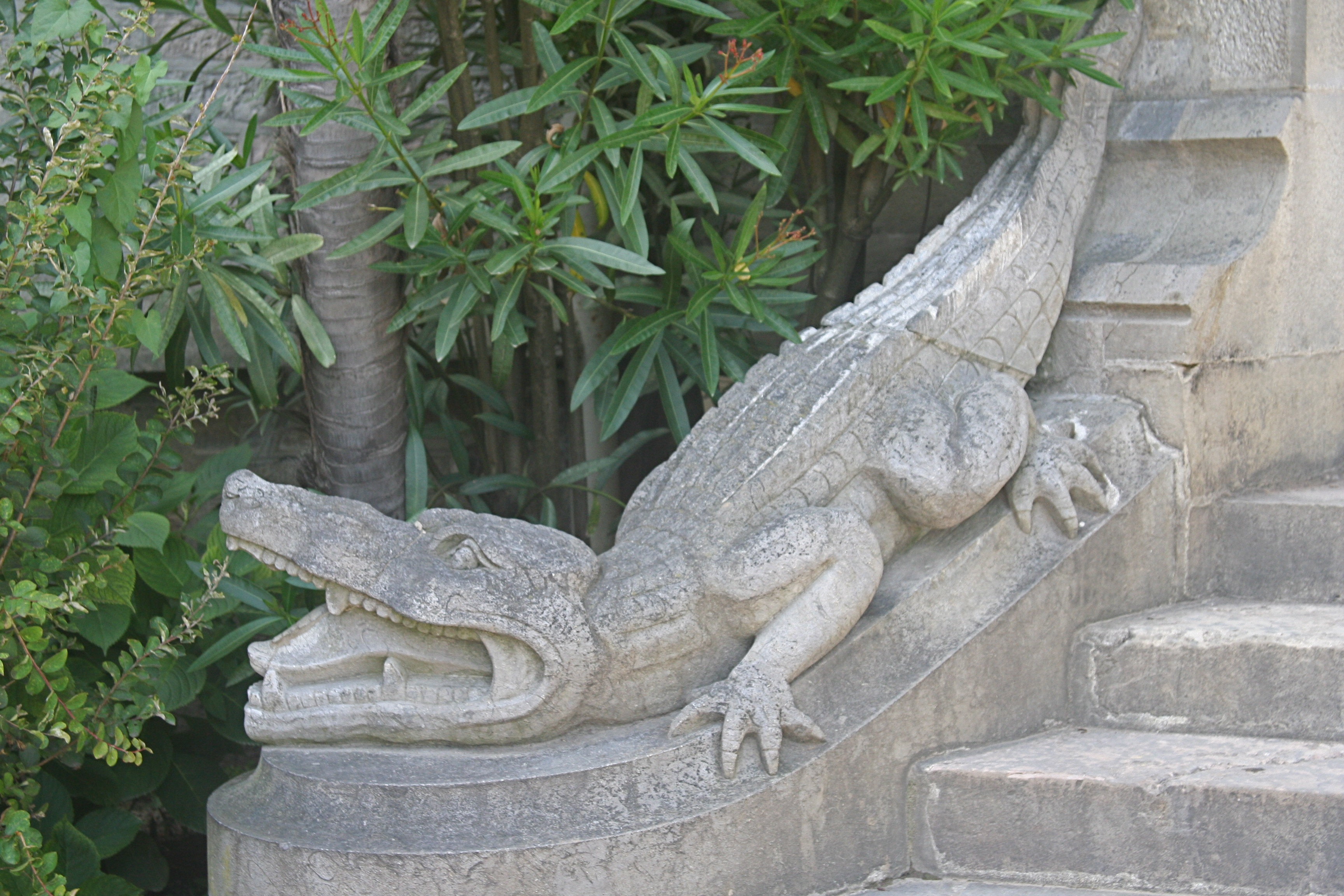 Crocodile sculpture, Abbadia Castle, Pyrénées Atlantiques, France